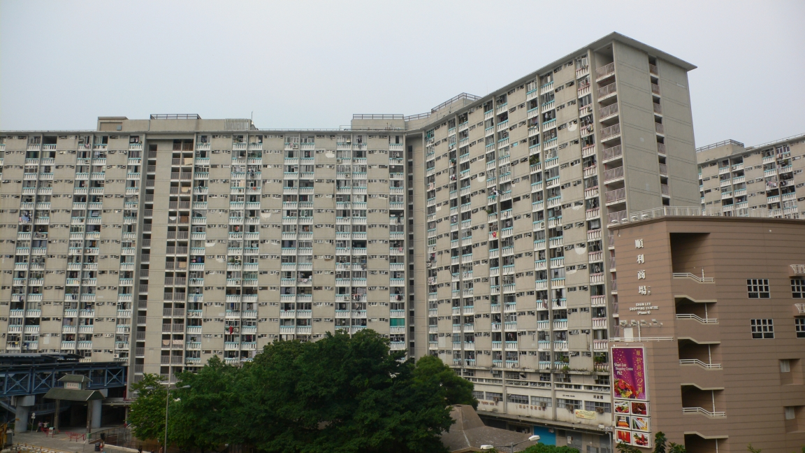 The Eastern End of Shun Lee Estate, Hong Kong